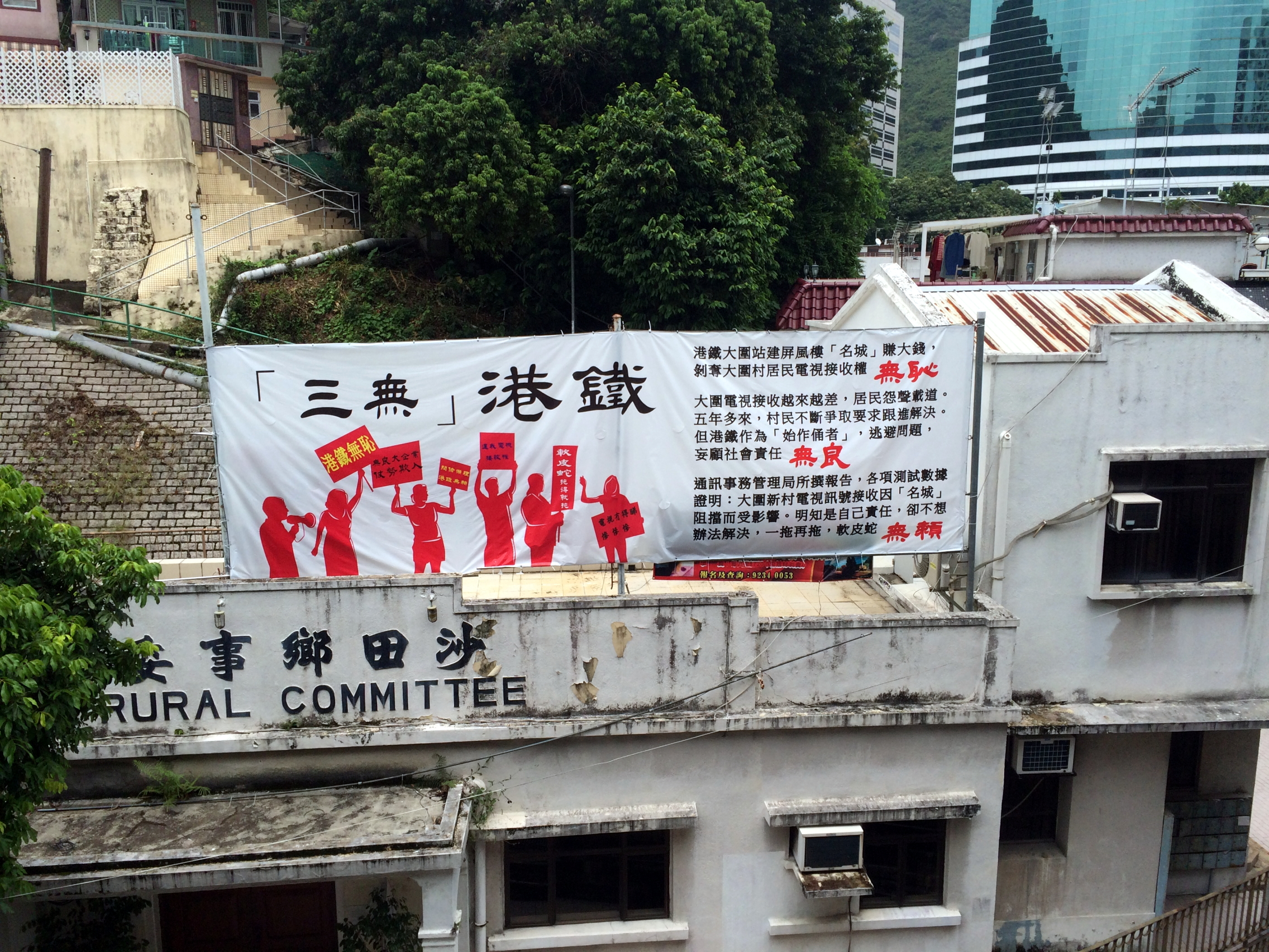 Discontent MTR Banner in Shatin Rural Committee